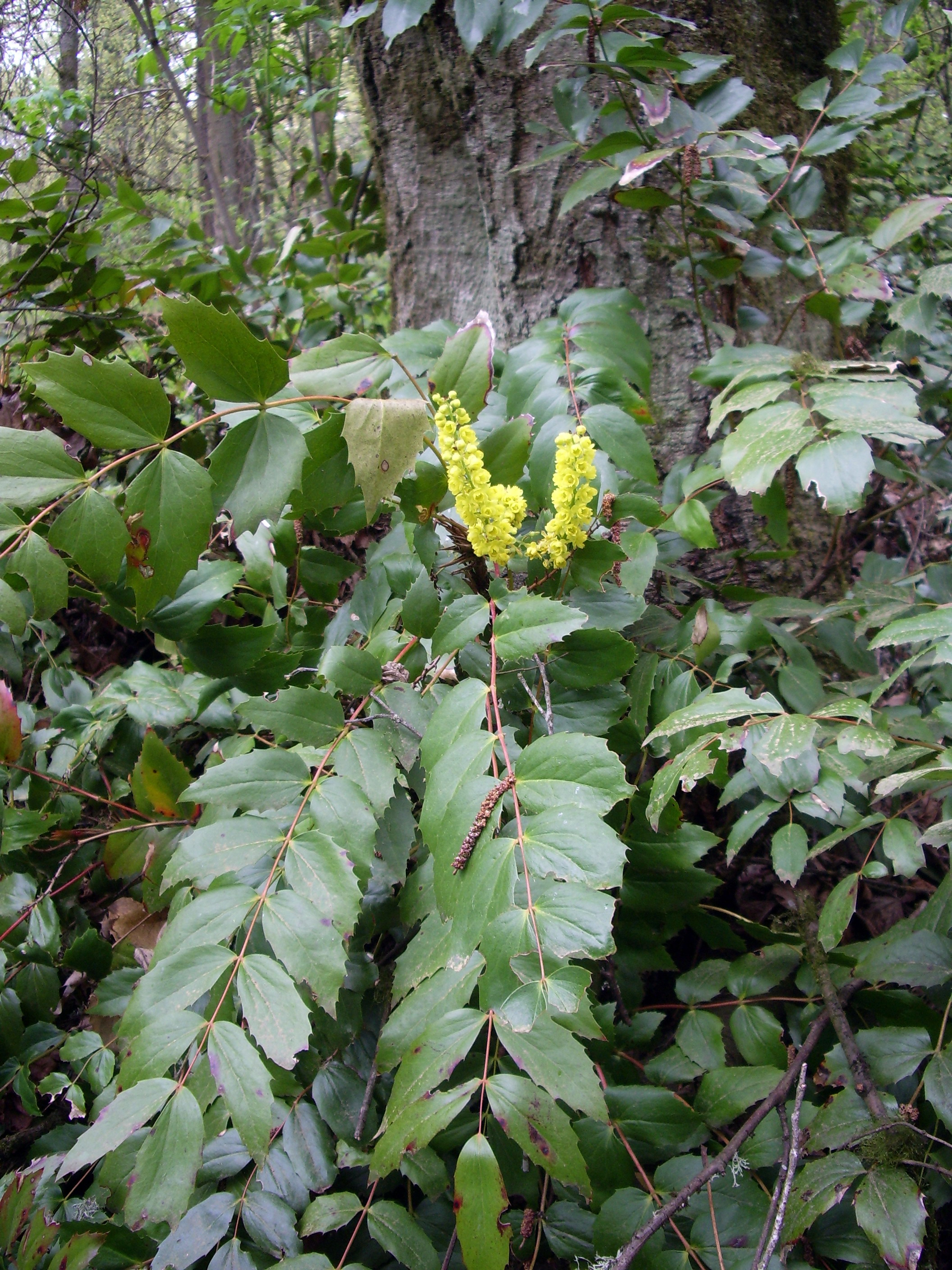 Oregon-grape in bloom in Forest Park at the foot of a second growth Douglas-fir tree alongside the Wildwood Trail.